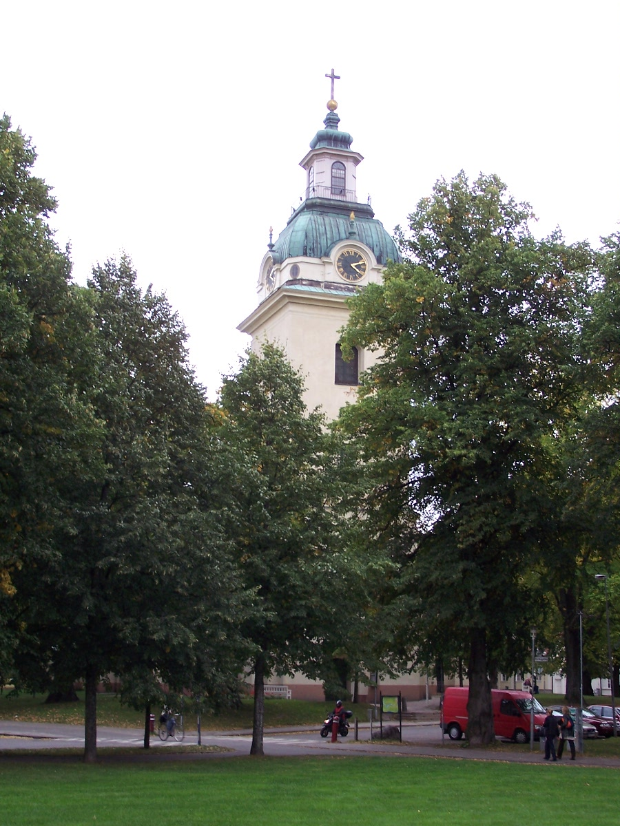 Heliga Trefaldighets church, Gävle, Sweden